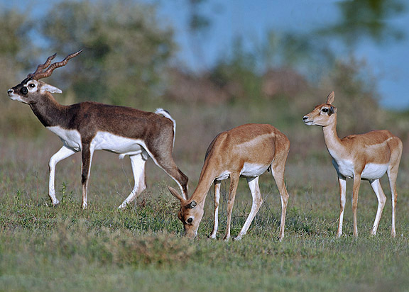 Black buck male and females At Nannaj Near Solapur, Maharashtra